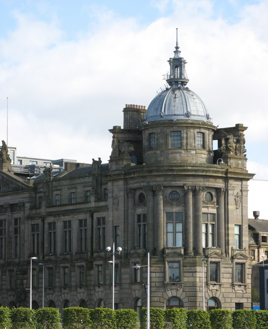 Clydeport building Glasgow has many magnificent buildings,and in my opinion they don't get much better than this one.